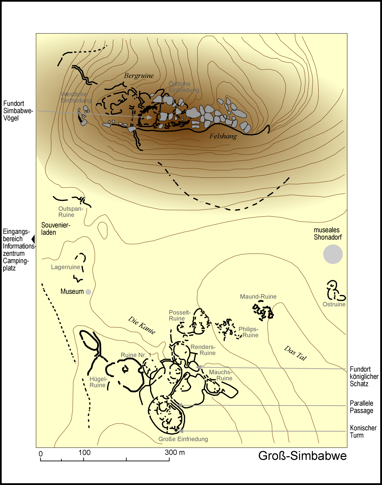 Map of the Great Zimbabwe ruins situation